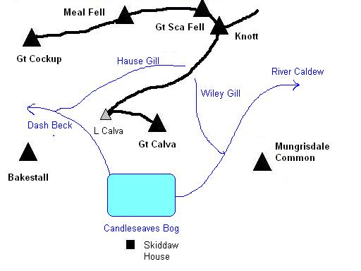 Sketch map of Great Calva, English Lake District